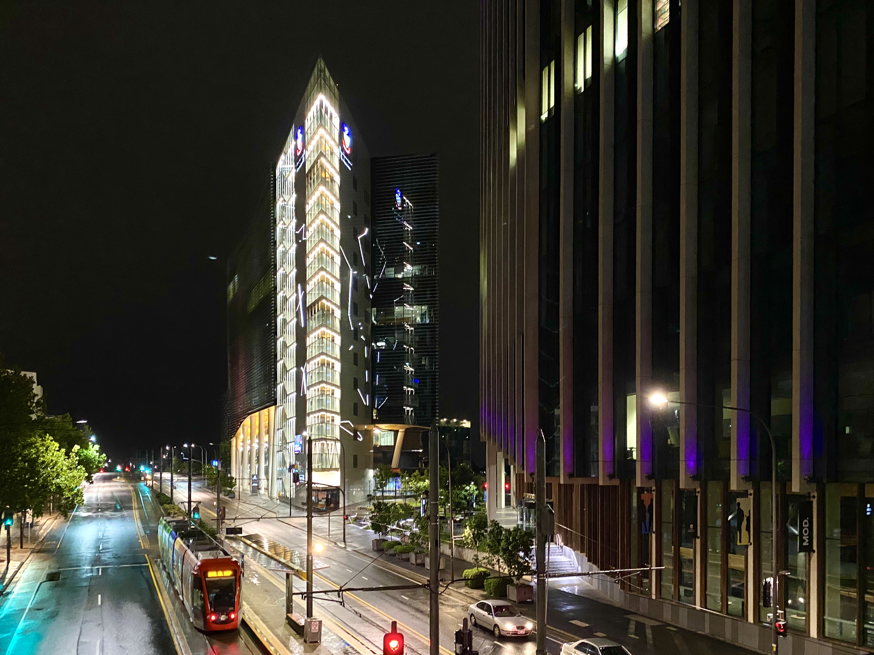 Adelaide's BioMed Precinct on North Terrace contains the Royal Adelaide Hospital (RAH), the South Australian Health and Medical Research Institute (SAHMRI), the University of Adelaide Health and Medical Sciences building (pictured), the University of South Australia's Health Innovation Building (pictured), and the state's Dental Hospital. A red city tram is seen travelling west, towards the Royal Adelaide Hospital.